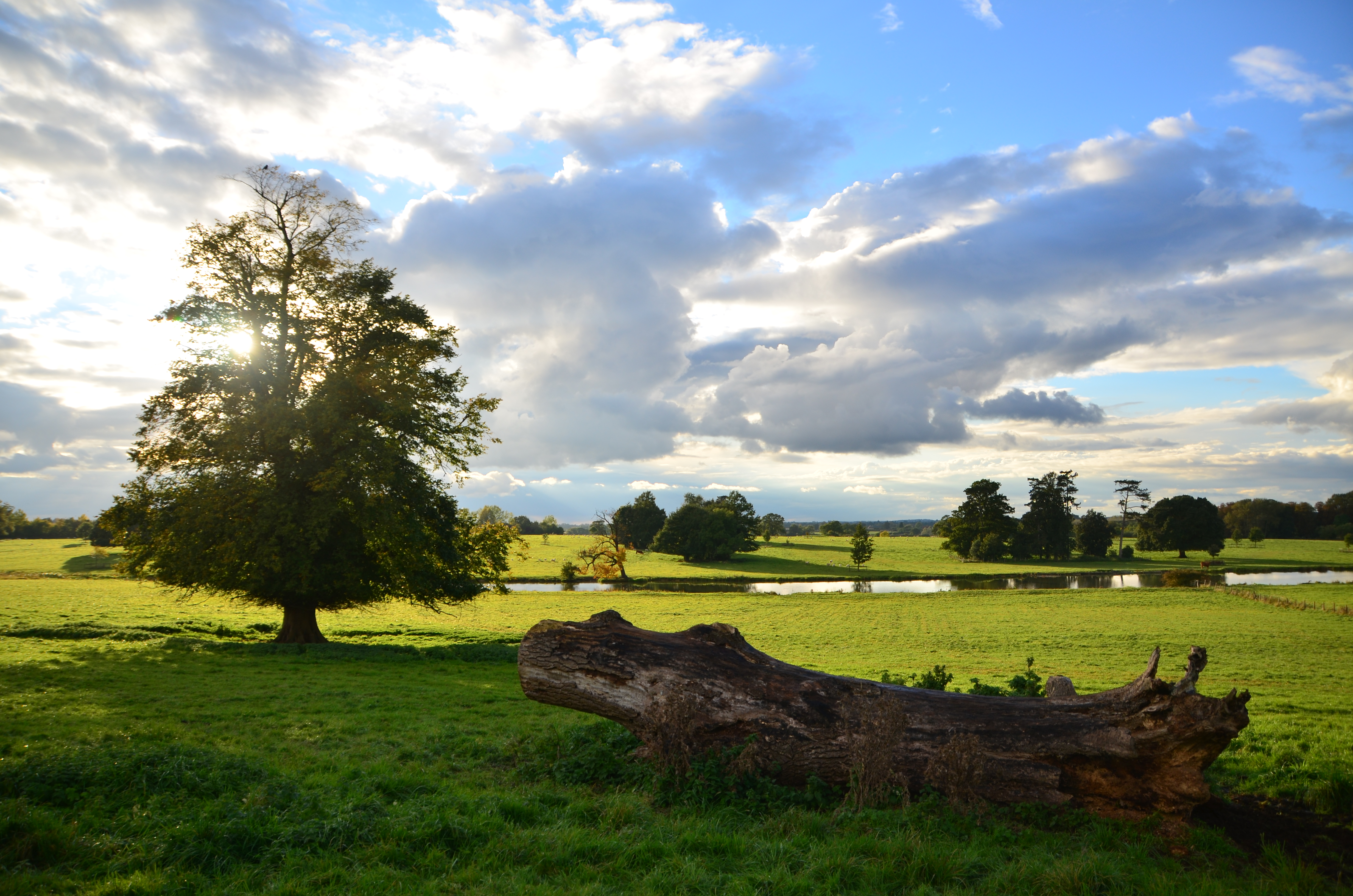 View near Claydon House - Magic Realism?